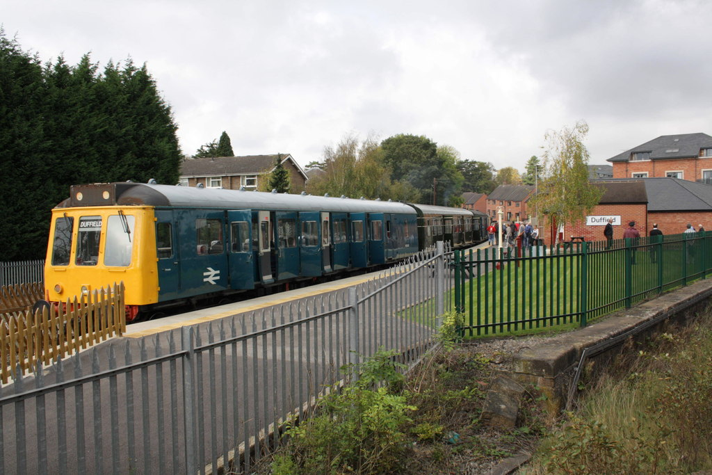 DMU on Ecclesbourne Valley Railway at Duffield The front coach is Class 117 Pressed Steel suburban unit no 51360.